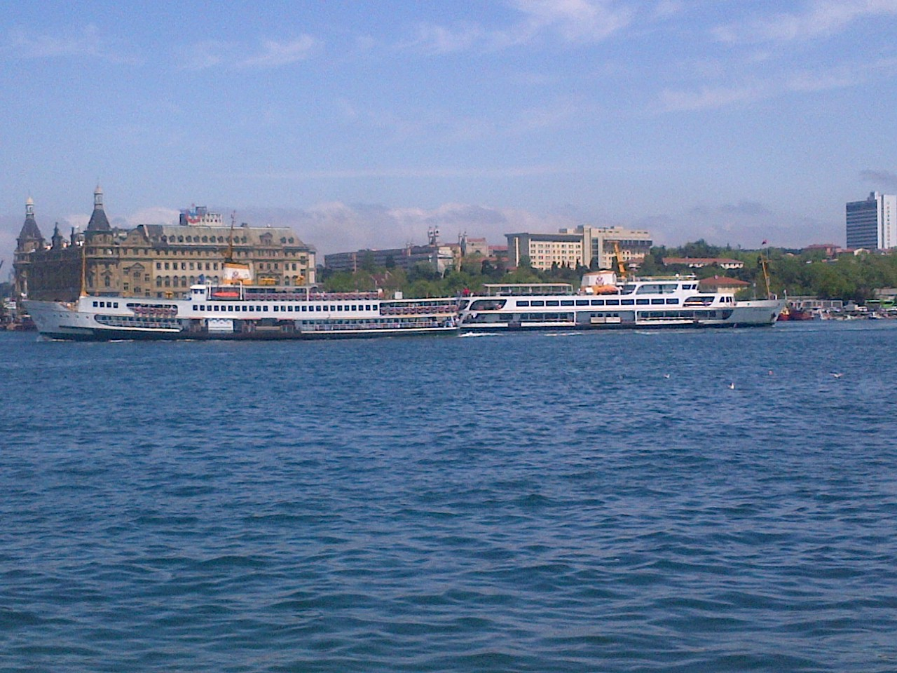 Two ships in Kadıköy and the Haydarpaşa Train Station behind, Istanbul.